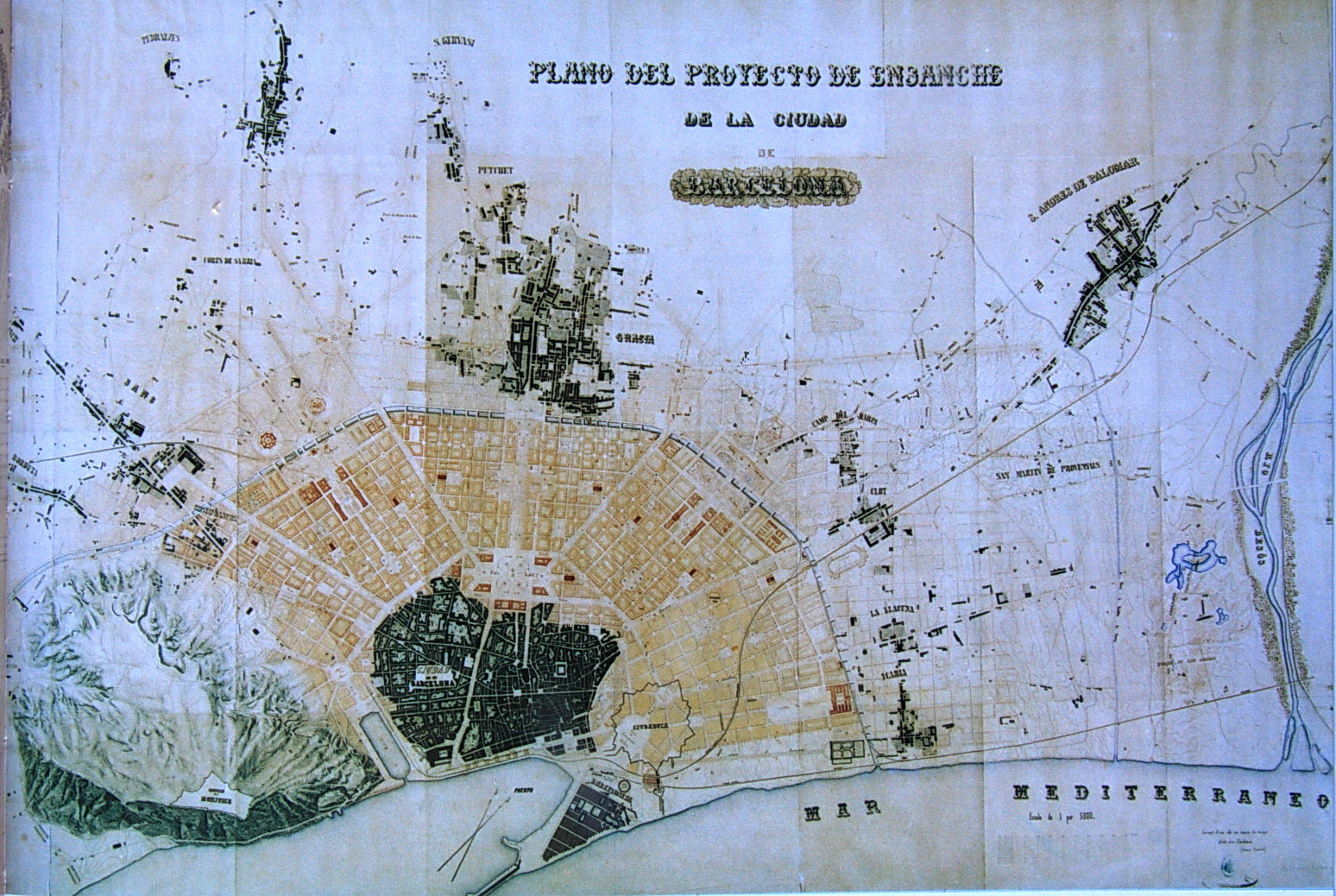 Eixample map of Barcelona. Map from Antoni Rovira i Trias; winner of the "Barcelona's eixample bid" which was finally assigned to the "Plan Cerdà" 1859.